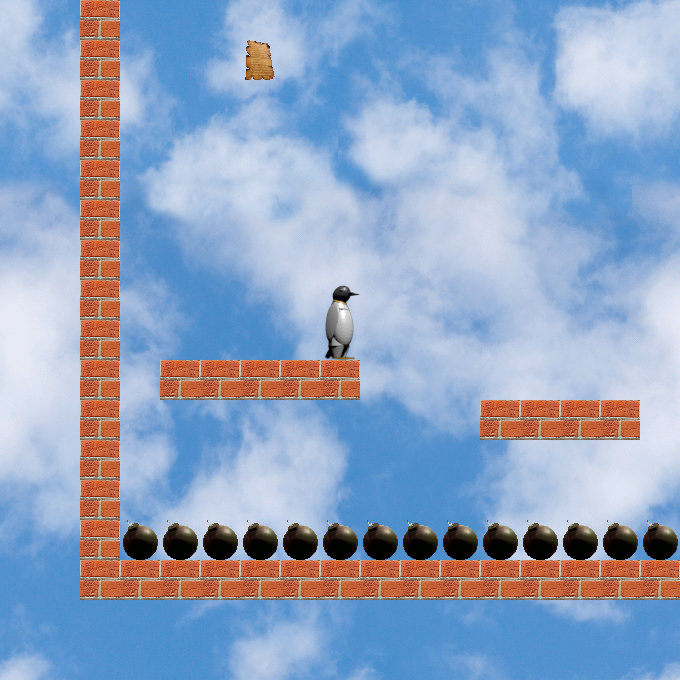 A screenshot of A random game, a video game created on Game Cloud.